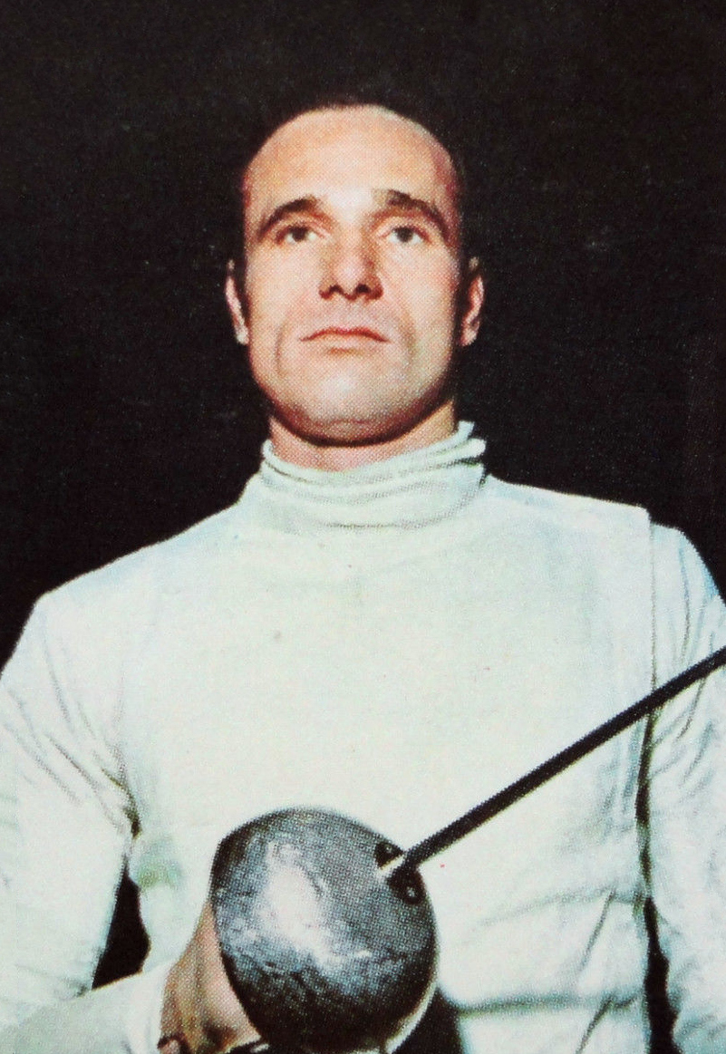 CAMPIONI DELLO SPORT 1969/70-n.380-SACCARO (ITA)-SCHERMA-rec